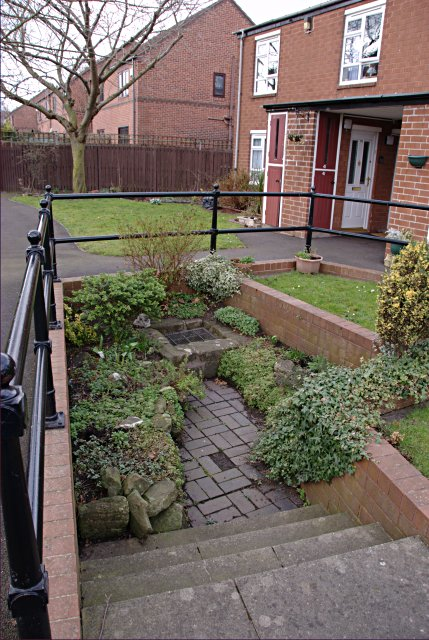 Roman Well at Little Chester, Derby. This Roman well dates back to the late 3rd century AD. Behind the houses are the remains of a Roman fort, marking the crossroads between Ryknield Street and the Old Chester Road.